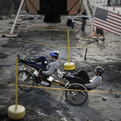 A team from Purdue University traverses the simulated lunar crater at the U.S. Space & Rocket Center in the 2012 Great Moonbuggy Race. Vignetting added to emphasize the subject matter and de-emphasize surroundings.